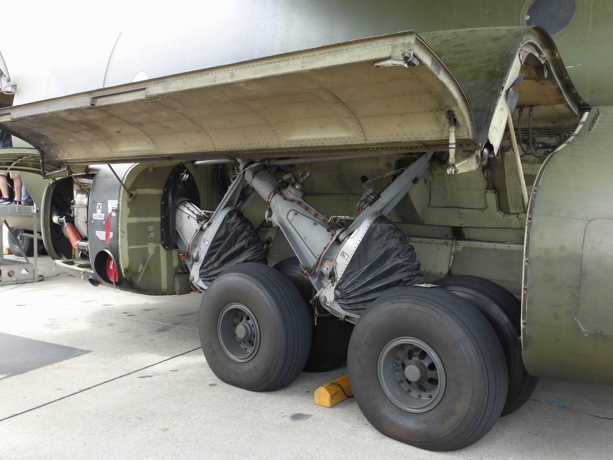 Left main gear of an Transall C-160 of the German Luftwaffe